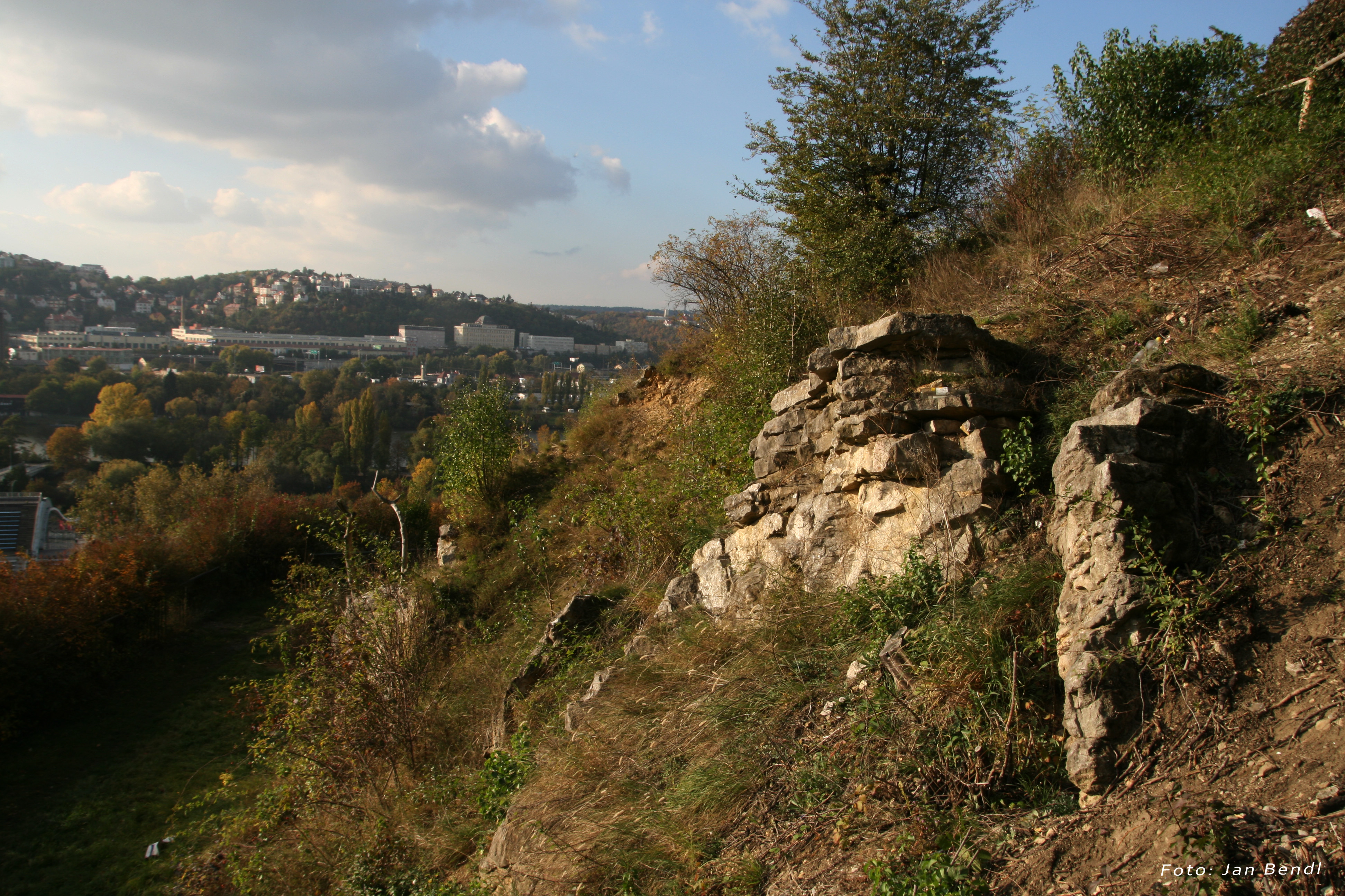 Natural monument Podolský profil in Prague, Czech Republic